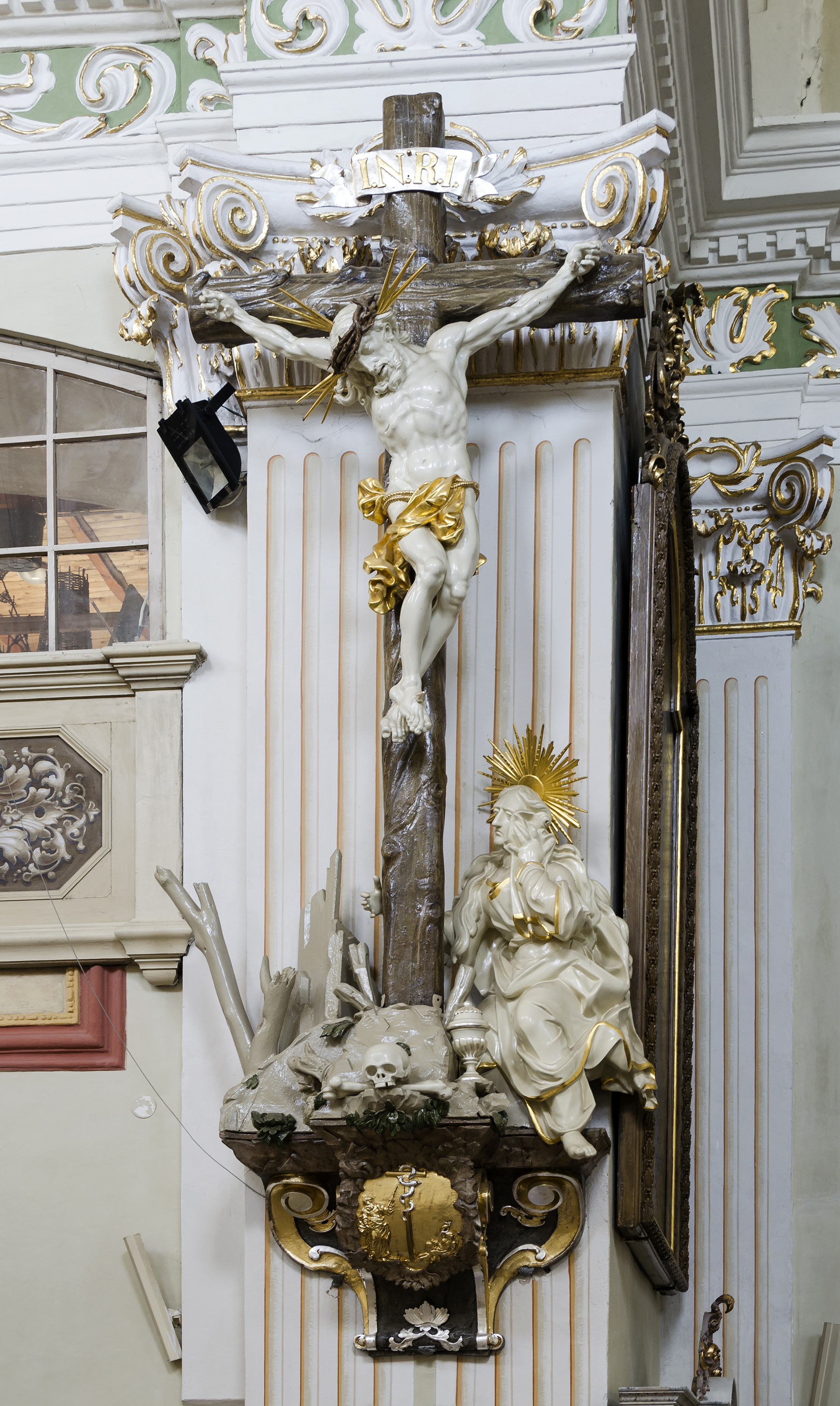 Church of the Nativity of the Virgin Mary in Lądek-Zdrój, crucifixion group by Michael Klahr